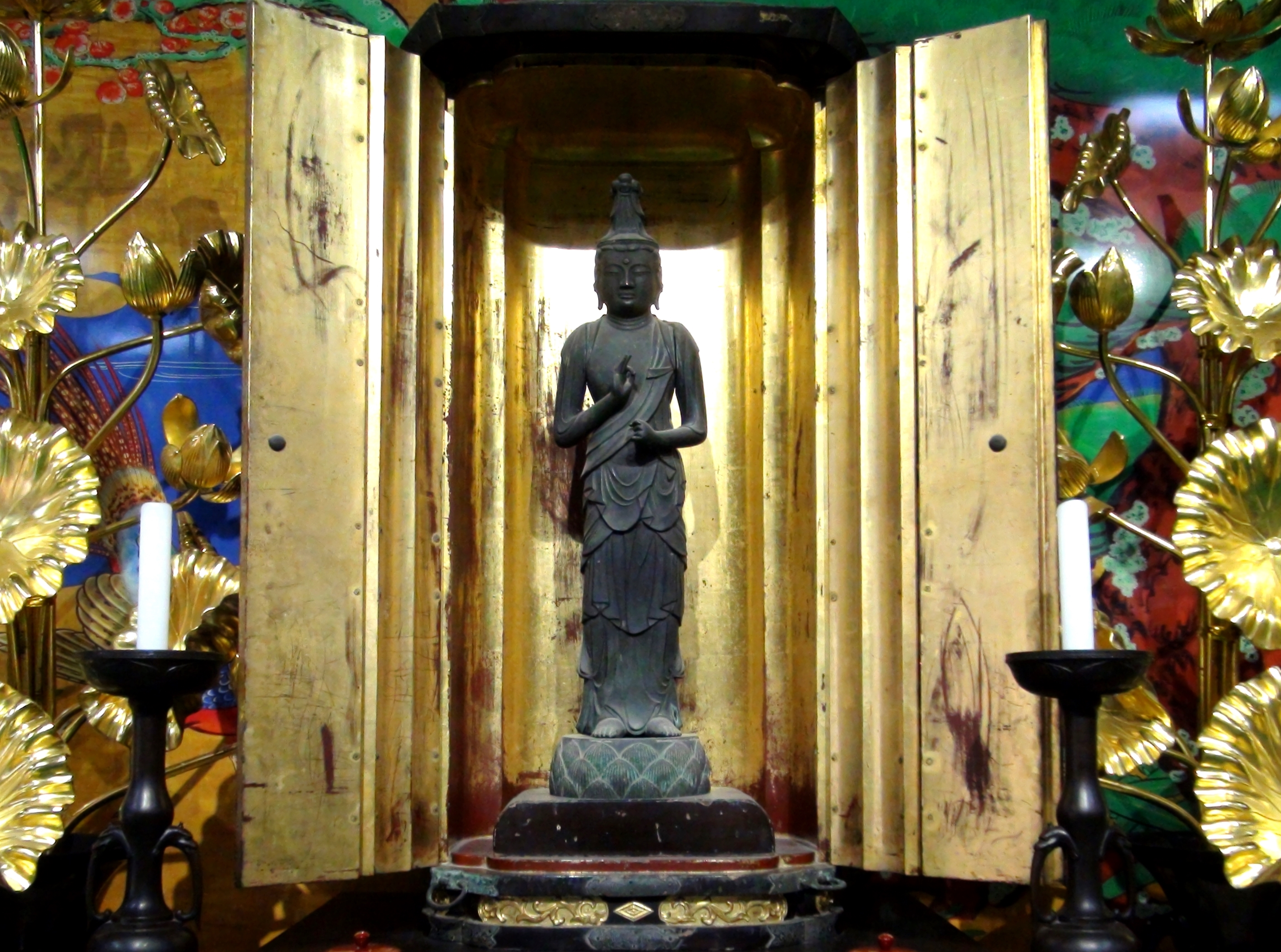 Principal image (Avalokiteśvara) of Zuigan-ji Temple